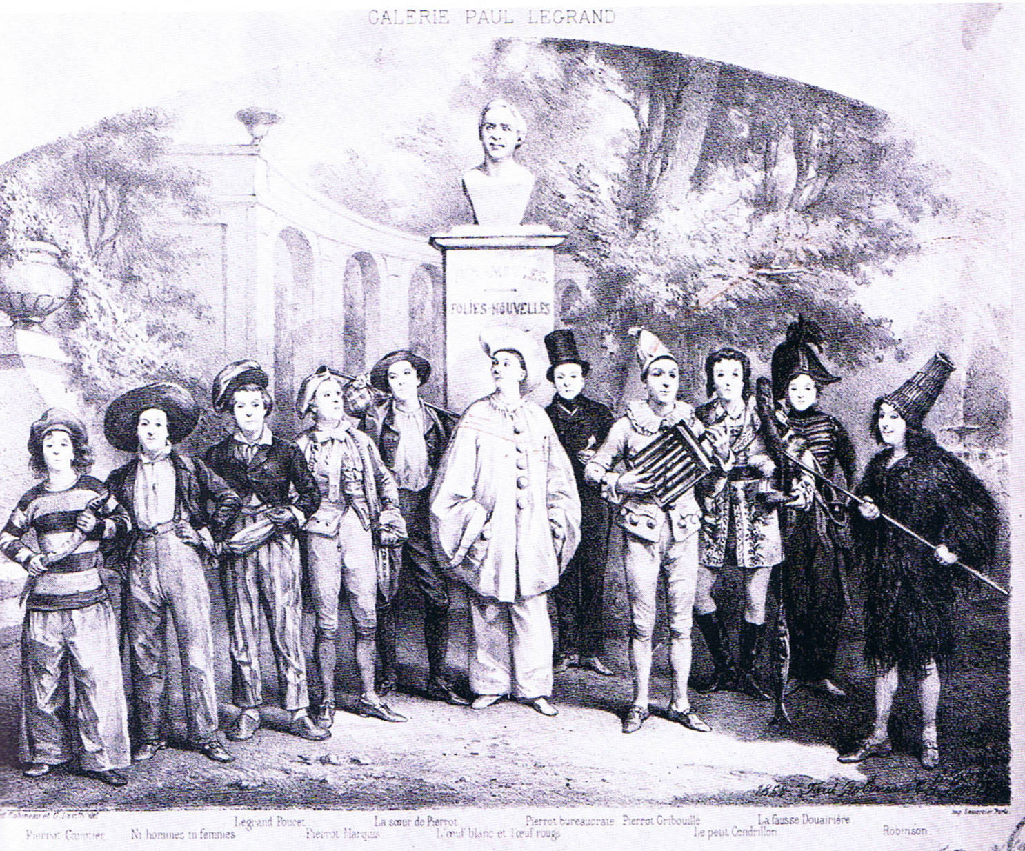 Photo of an engraving by F. Robineau and G. Levilly of the mime Paul Legrand in his various roles at the Th. des Funambules and Folies-Nouvelles (1858).